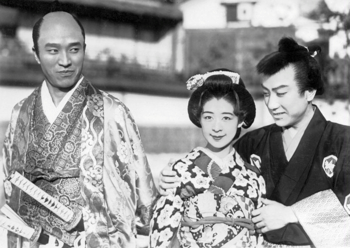 From left to right : Dick Mine, Haruyo Ichikawa and Chiezō Kataoka in Oshidori utagassen (鴛鴦歌合戦) directed by Masahiro Makino - 1939